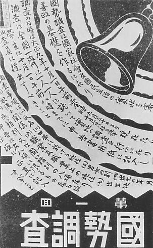 1st Census poster in Japan